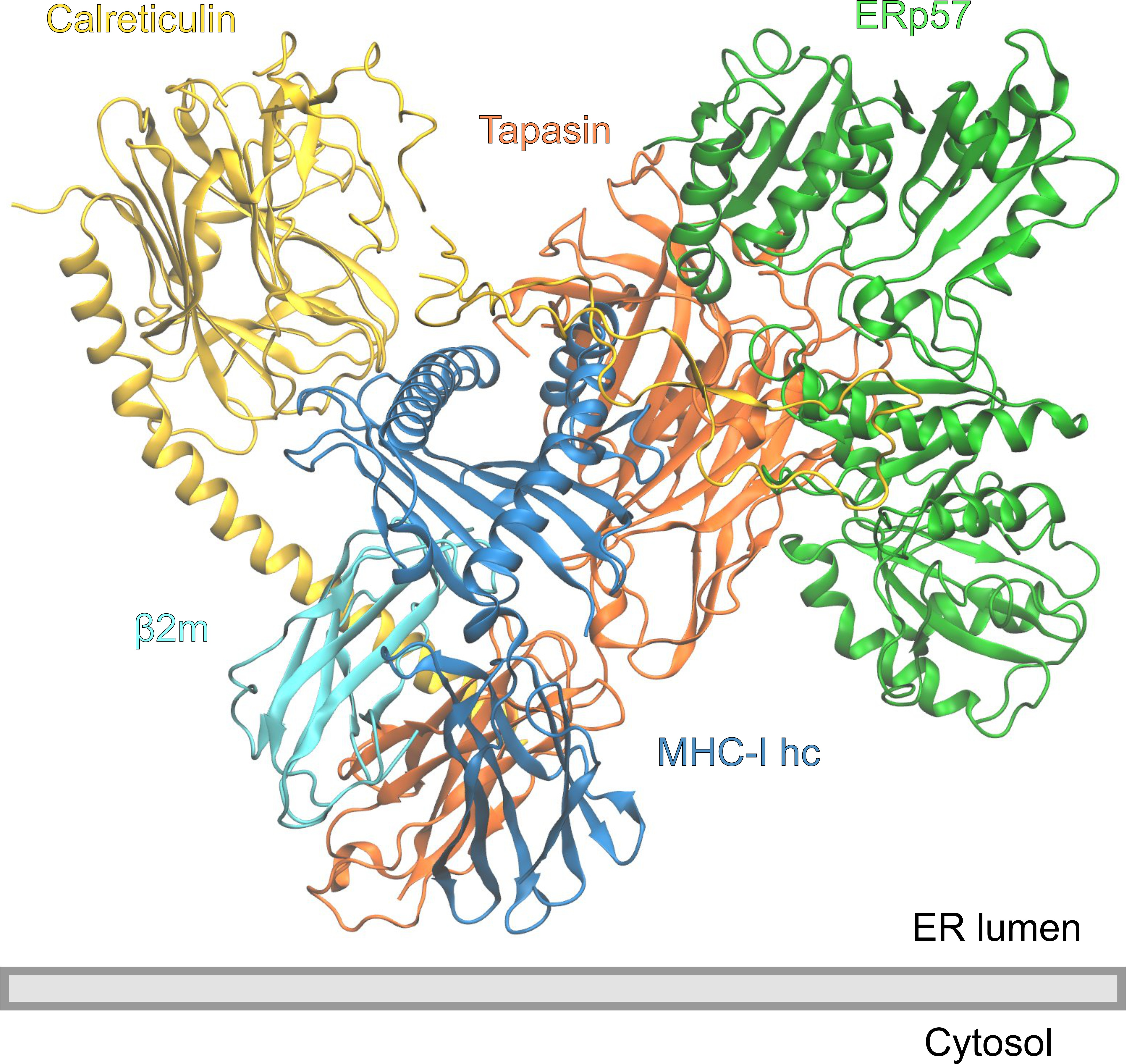 Molecular Model of the Peptide Loading Complex from CryoEM